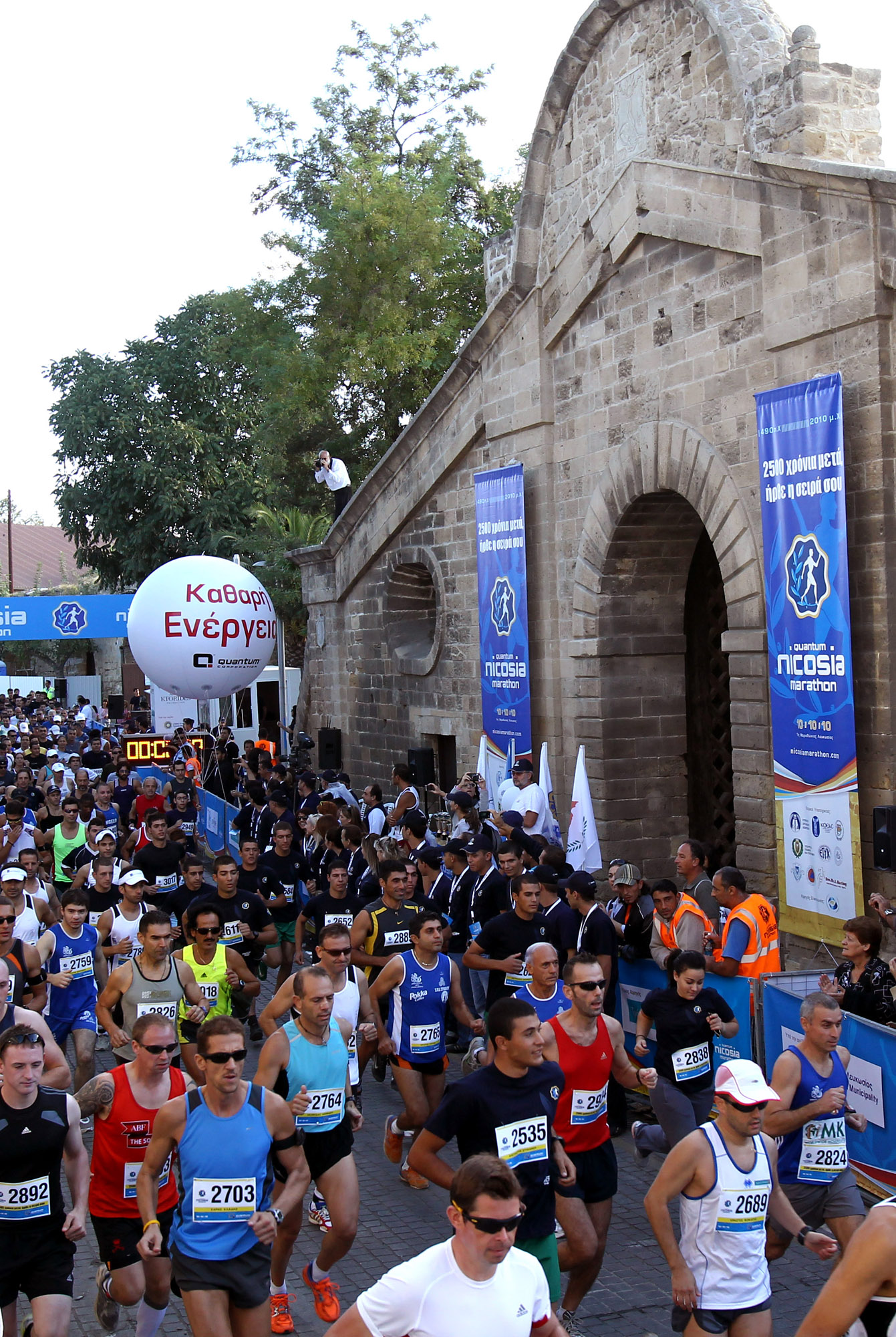 Start of Quantum Nicosia marathon on 10 October 2010